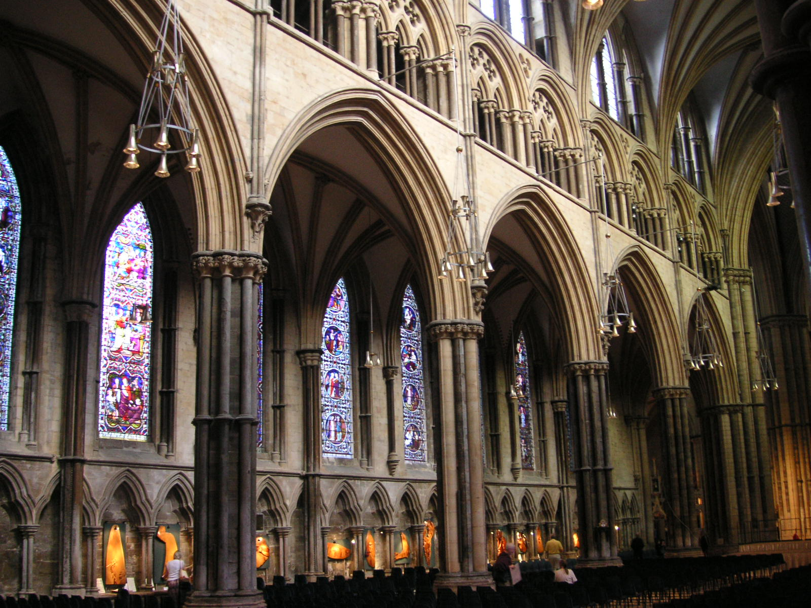 England, Lincoln Cathedral, the Nave arcade